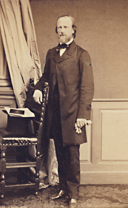 Etienne Soubre (1813-1871)